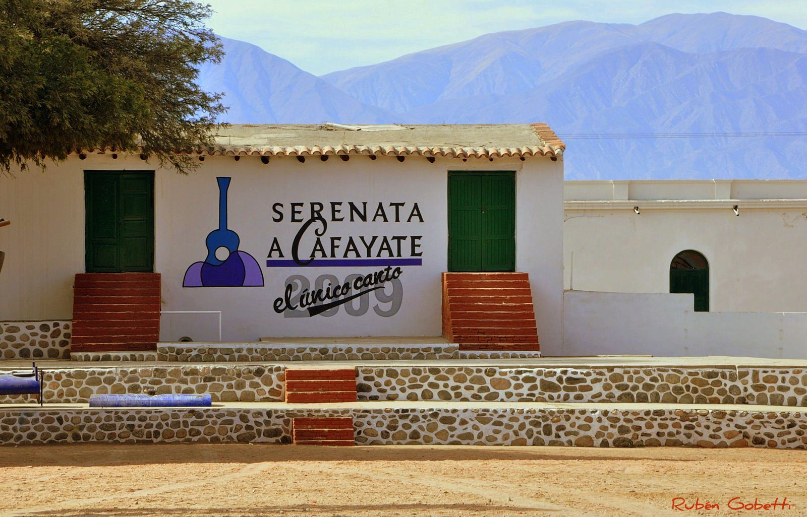 Serenata a Cafayate